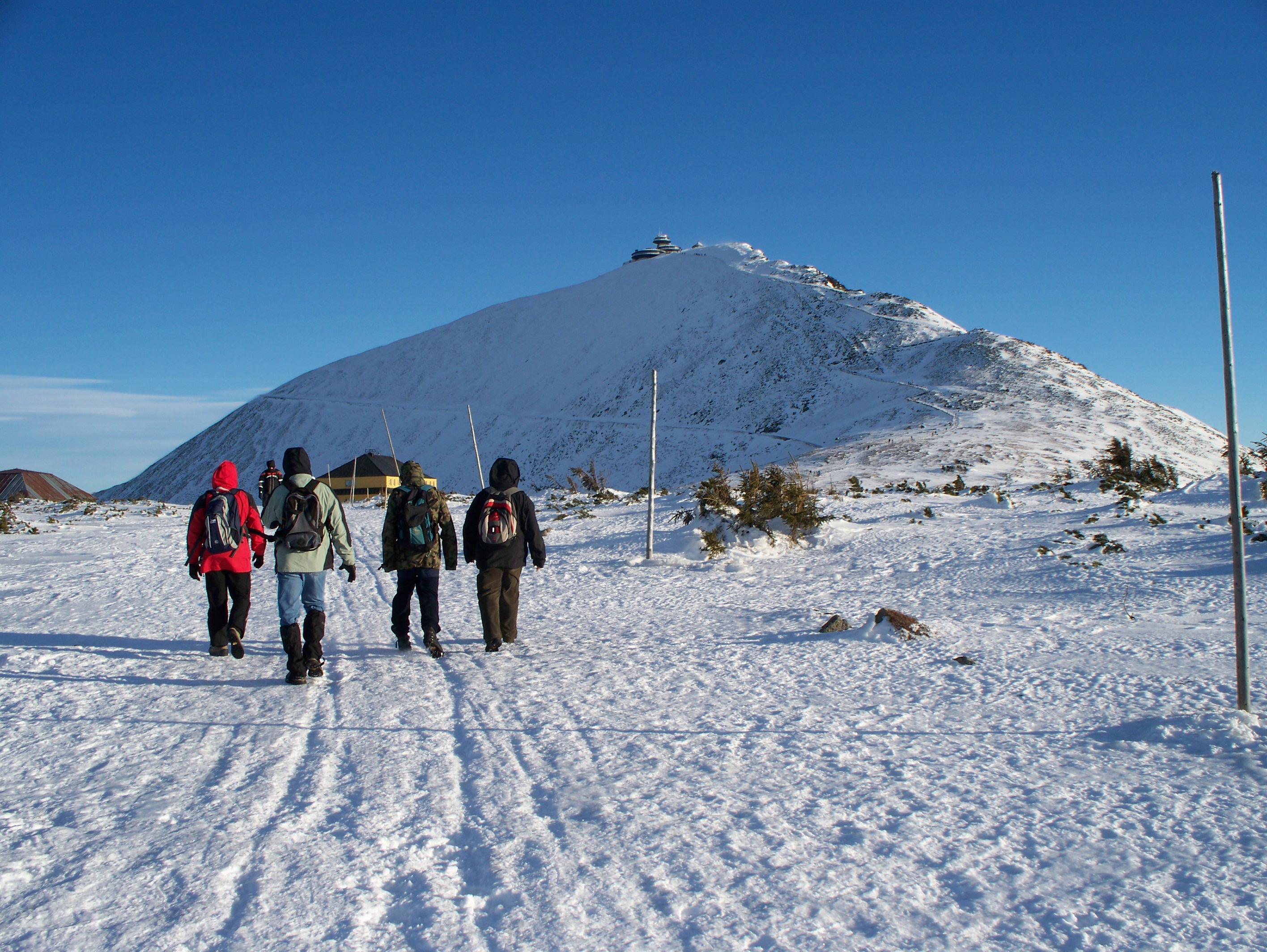 On the hiking trail to Snizka. Karkonosze Winter 2007.